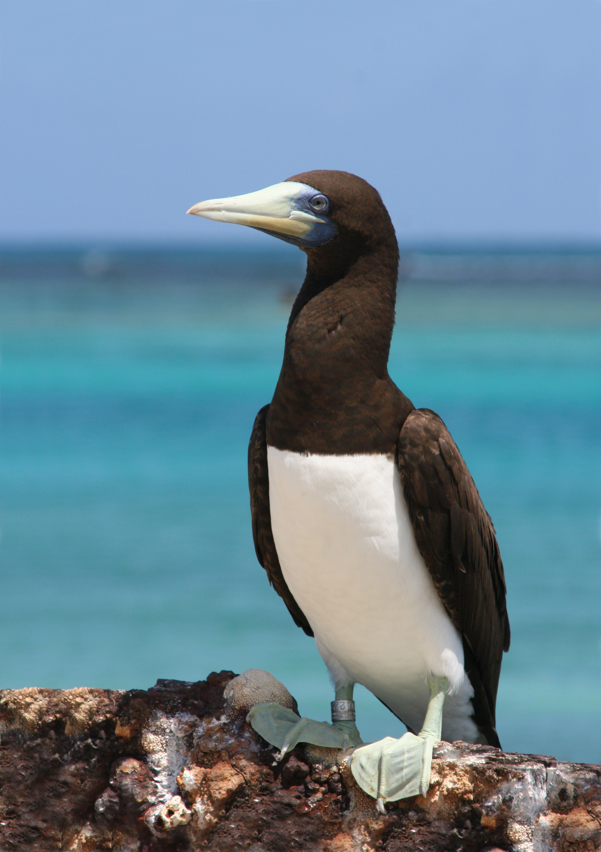 Brown Booby Sula leucogaster Tern Island French Frigate Shoals